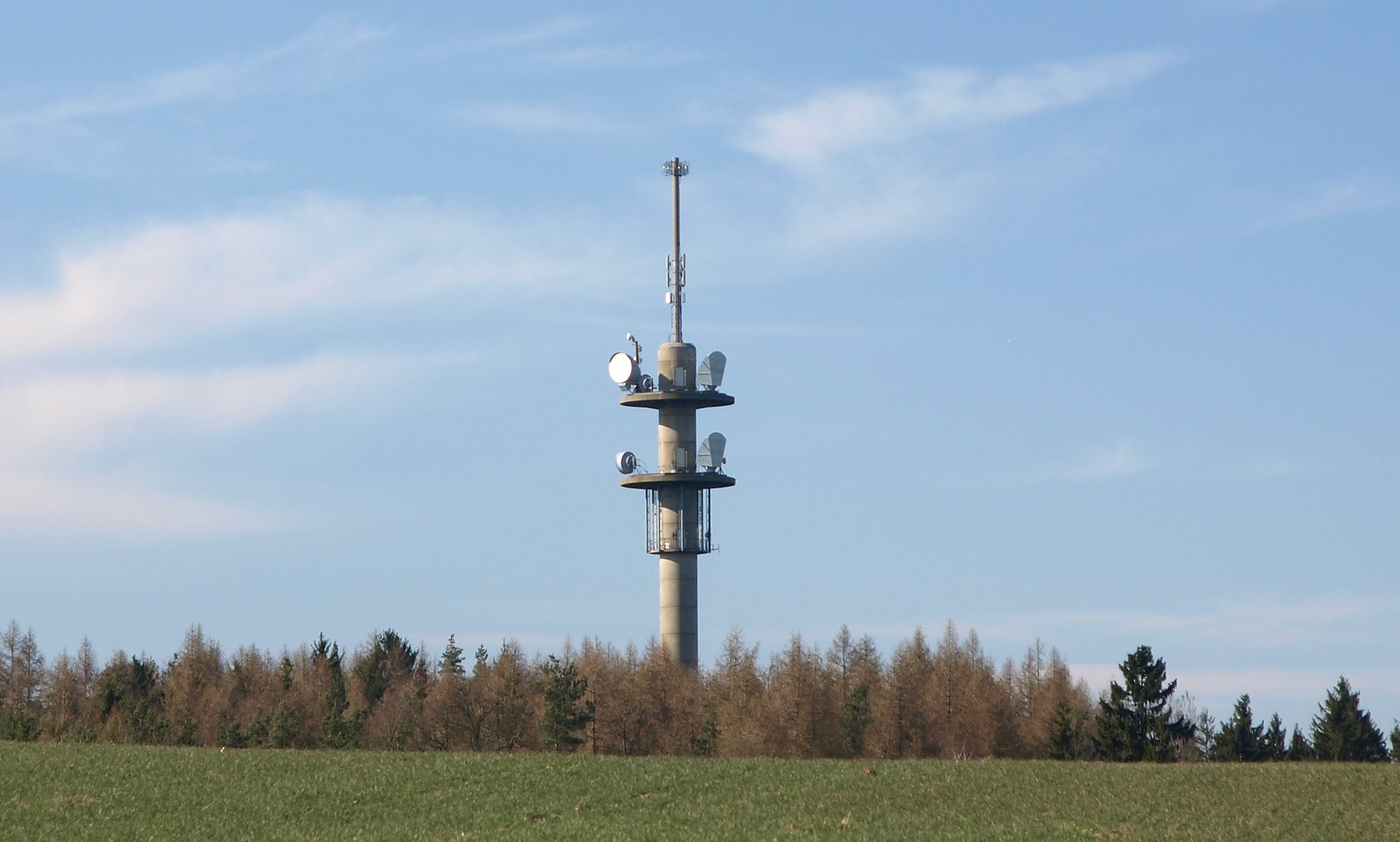 Radio tower in Schenklengsfeld-Wippershain